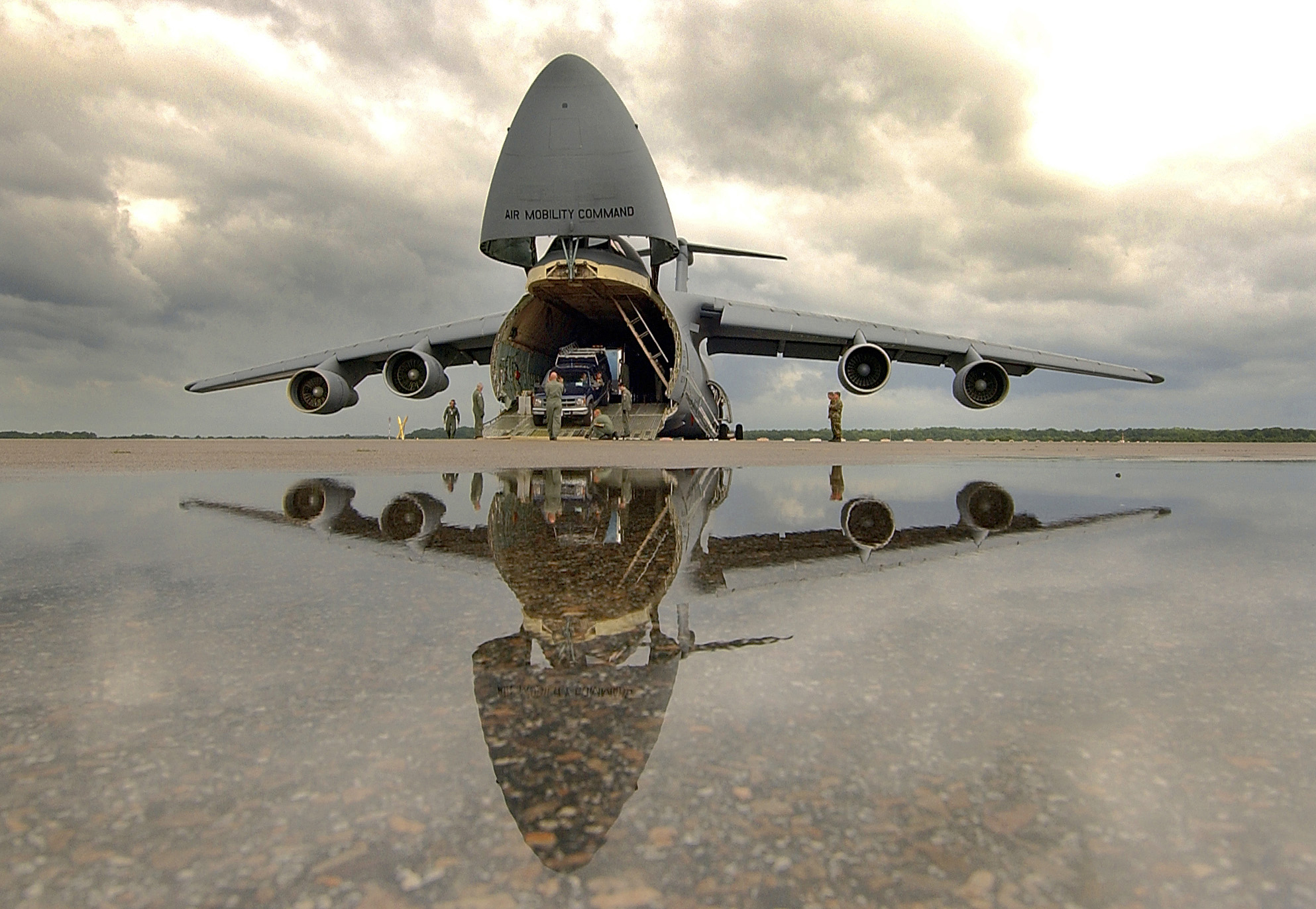 U.S Air Force air crewmen offload vehicles from a C-5 Galaxy at Bush Field, Ga., on June 11, 2005. The Galaxy and its crew are providing transportation for cargo being used during Exercise Golden Medic 2005 which is being held simultaneously at three locations -- Fort Gordon, Ga., Bush Field, Ga., and Fort McCoy, Wis.